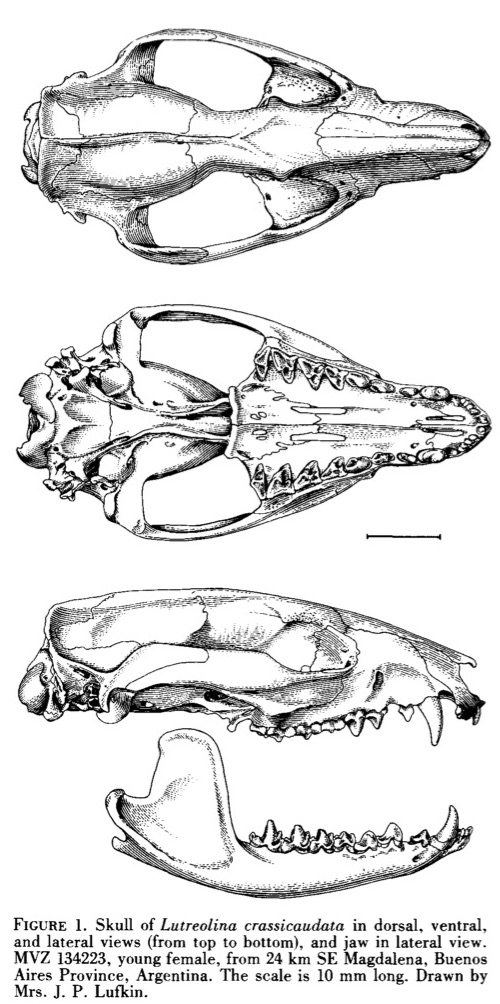 Skull of Lutreolina crassicaudata [citation 2]